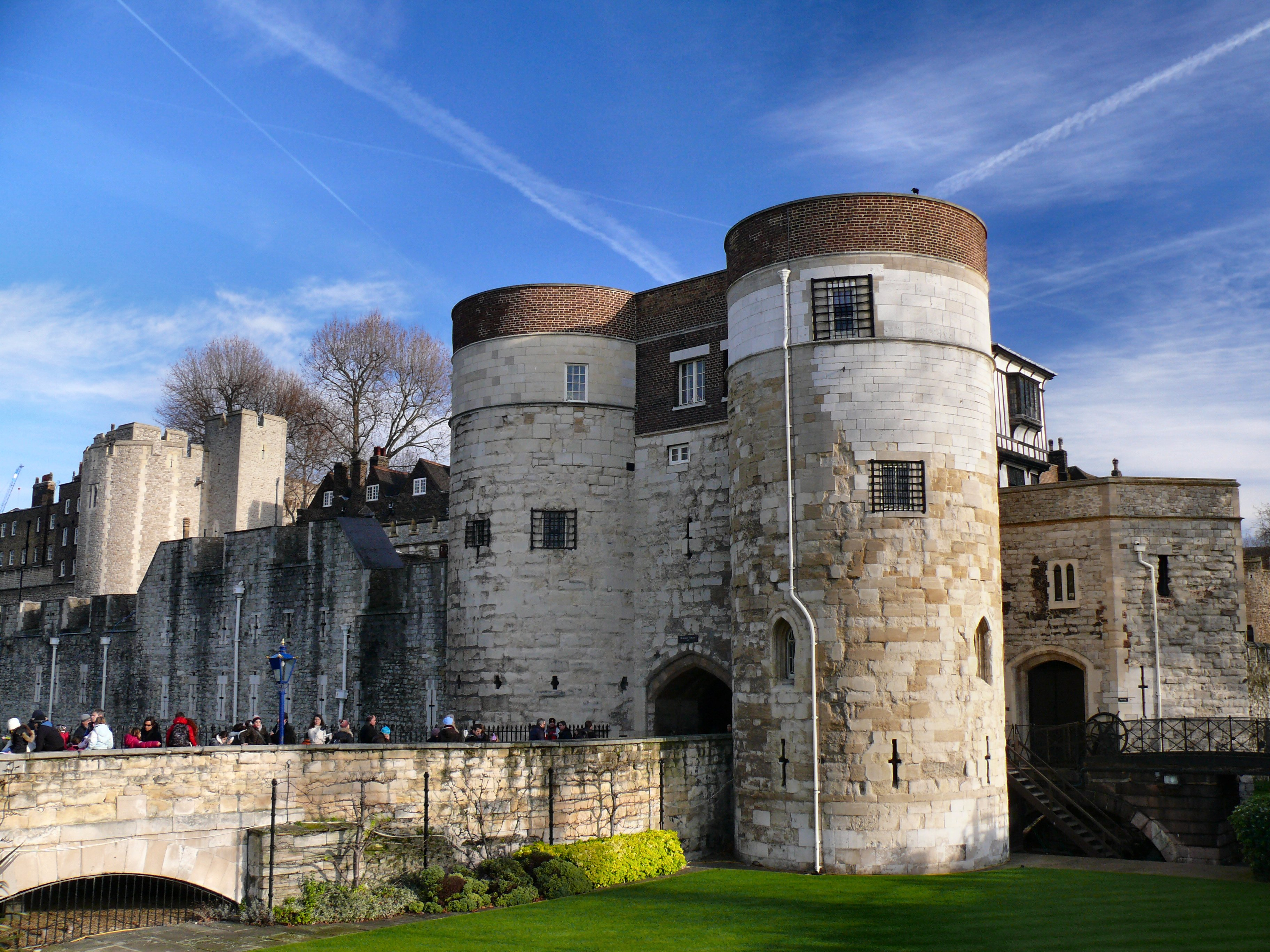 Main entrance of the Tower of London. Taken at London, England, United Kingdom, December 2009